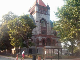 Hampshire County Courthouse in Northampton, Massachusetts